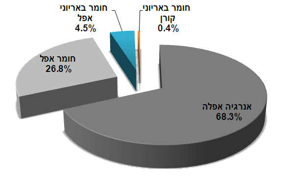 Dark matter